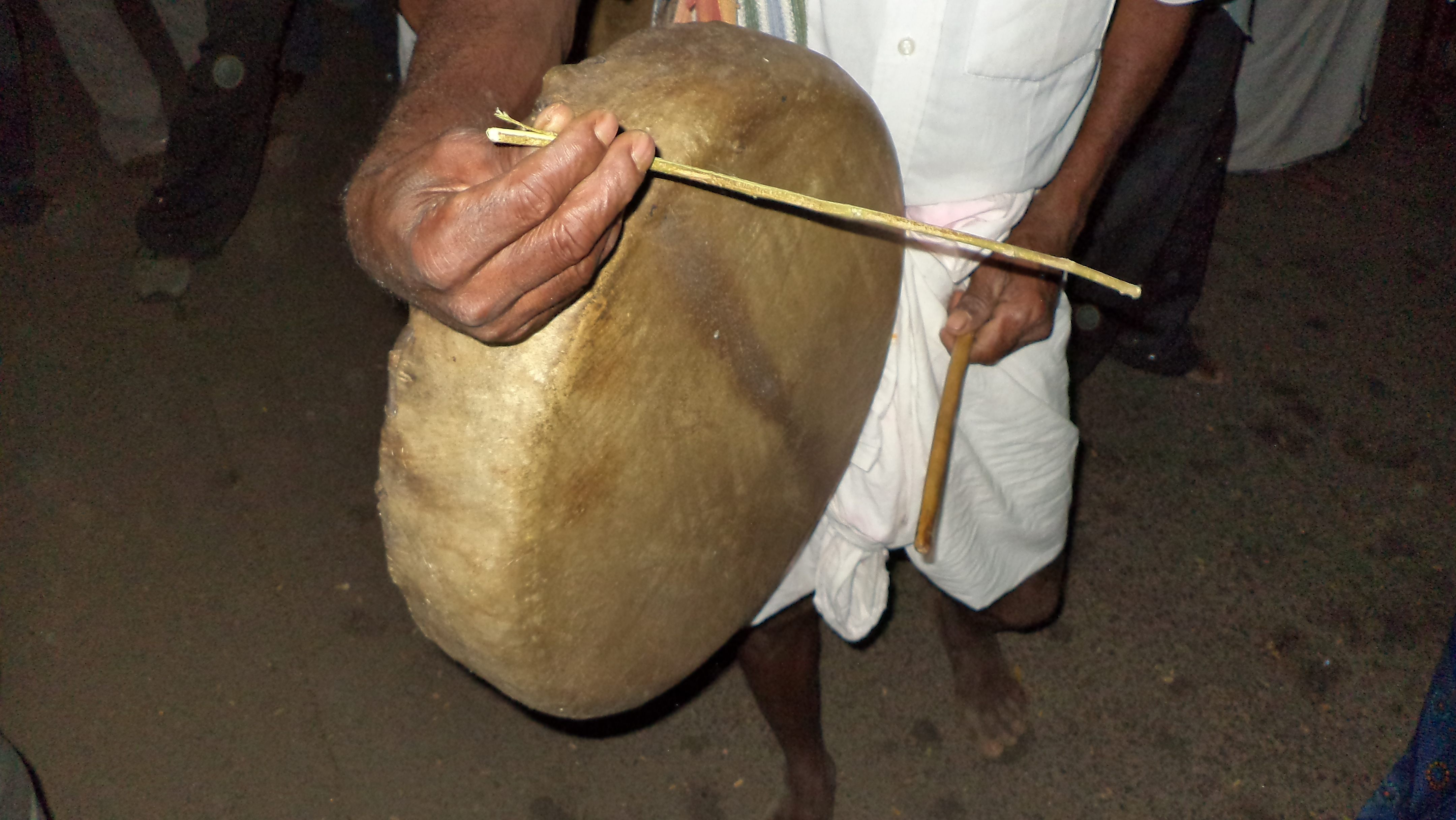 A Drum instrument Thappu